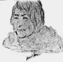 portrait of Chief Crazy Bear from the Rudolph Kurz diary 1851 Plate 7, digitally cropped in Photoshop